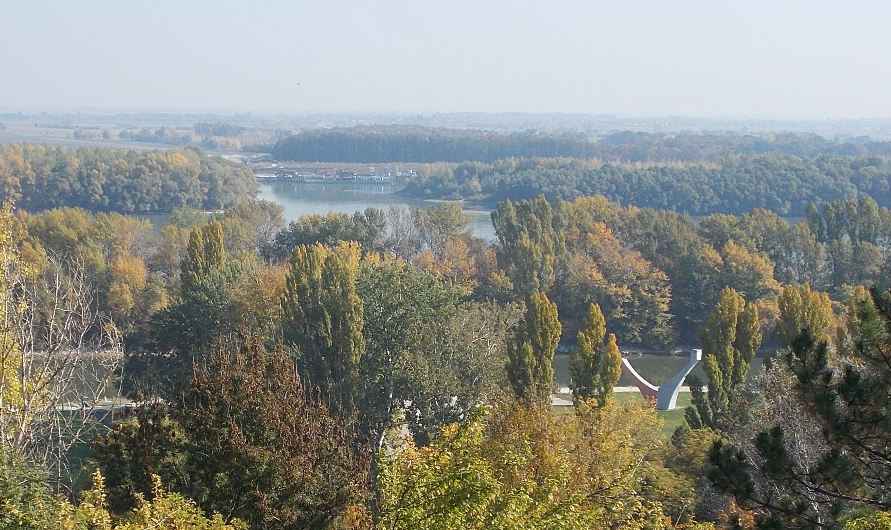 View to Lower Promenade Park '1/2 X = V - Felix=Victoria' sculpture by György Galántai, Szalki Island and Szalkszentmárton (Bács-Kiskun County) from Steel sculpture Park, Felső-Dunapart neighborhood,Dunaújváros, Fejér County, Hungary.